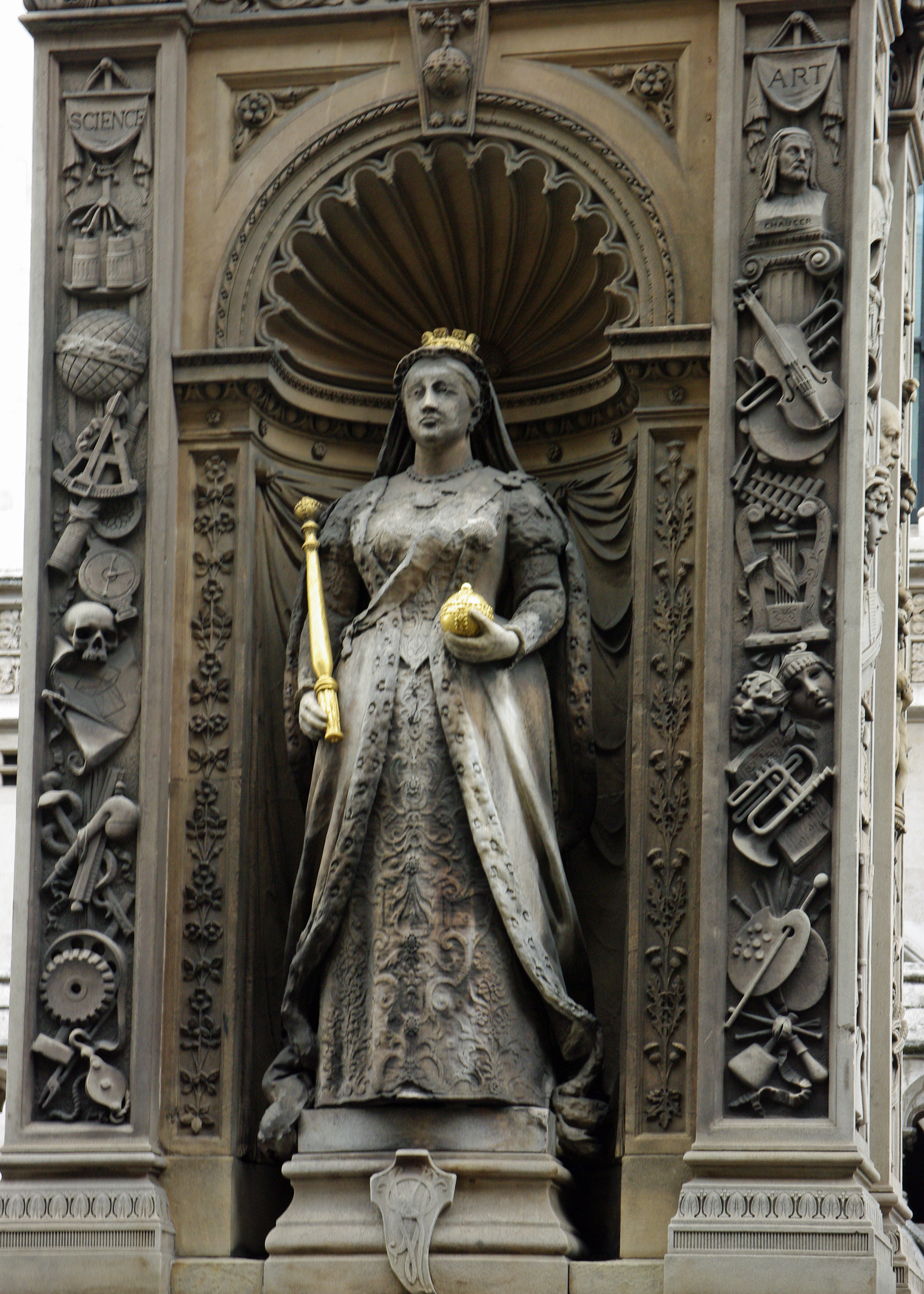 Queen Victoria holding a gilded sceptre & orb on the Temple Bar Marker, London.